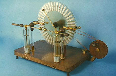 Wimshurst's electrostatic machine after renovation